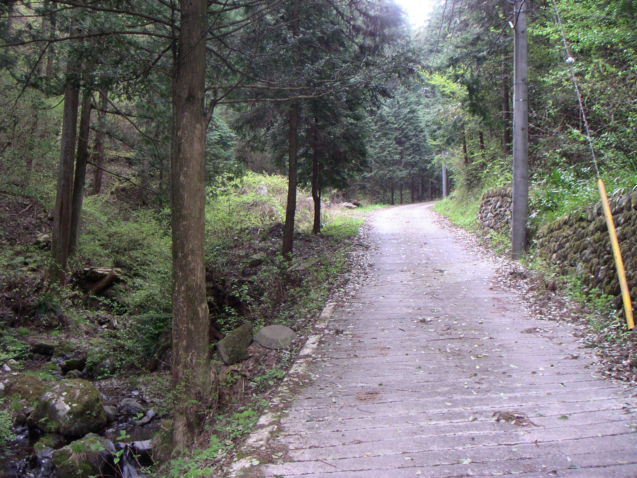 Tokyo prefectural road 184